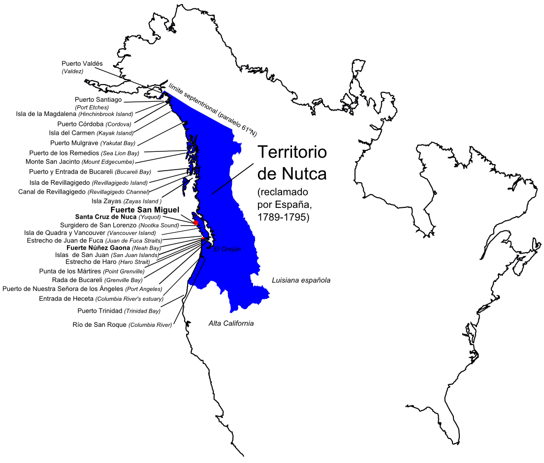 Nootka Territory: Spanish territorial claims in the West Coast of North America (18th century)